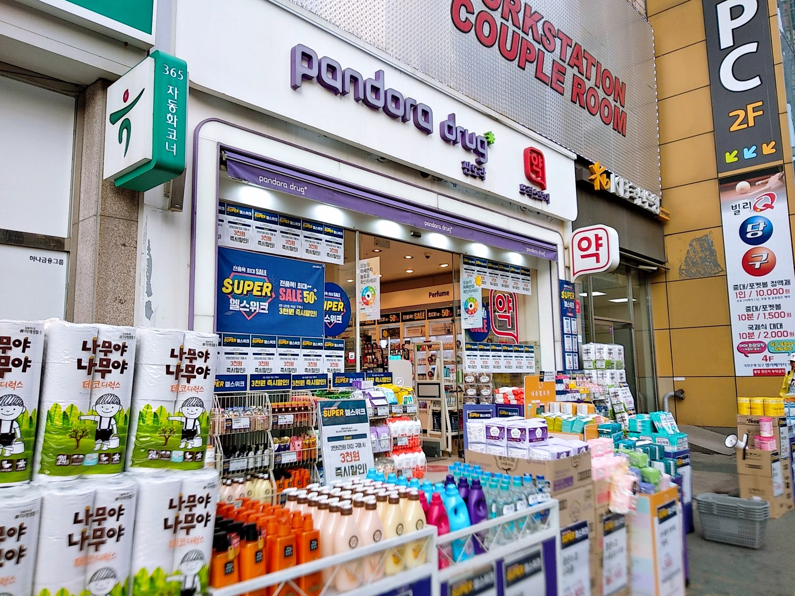 Pandora, drugstore at Sillim-dong of south korea